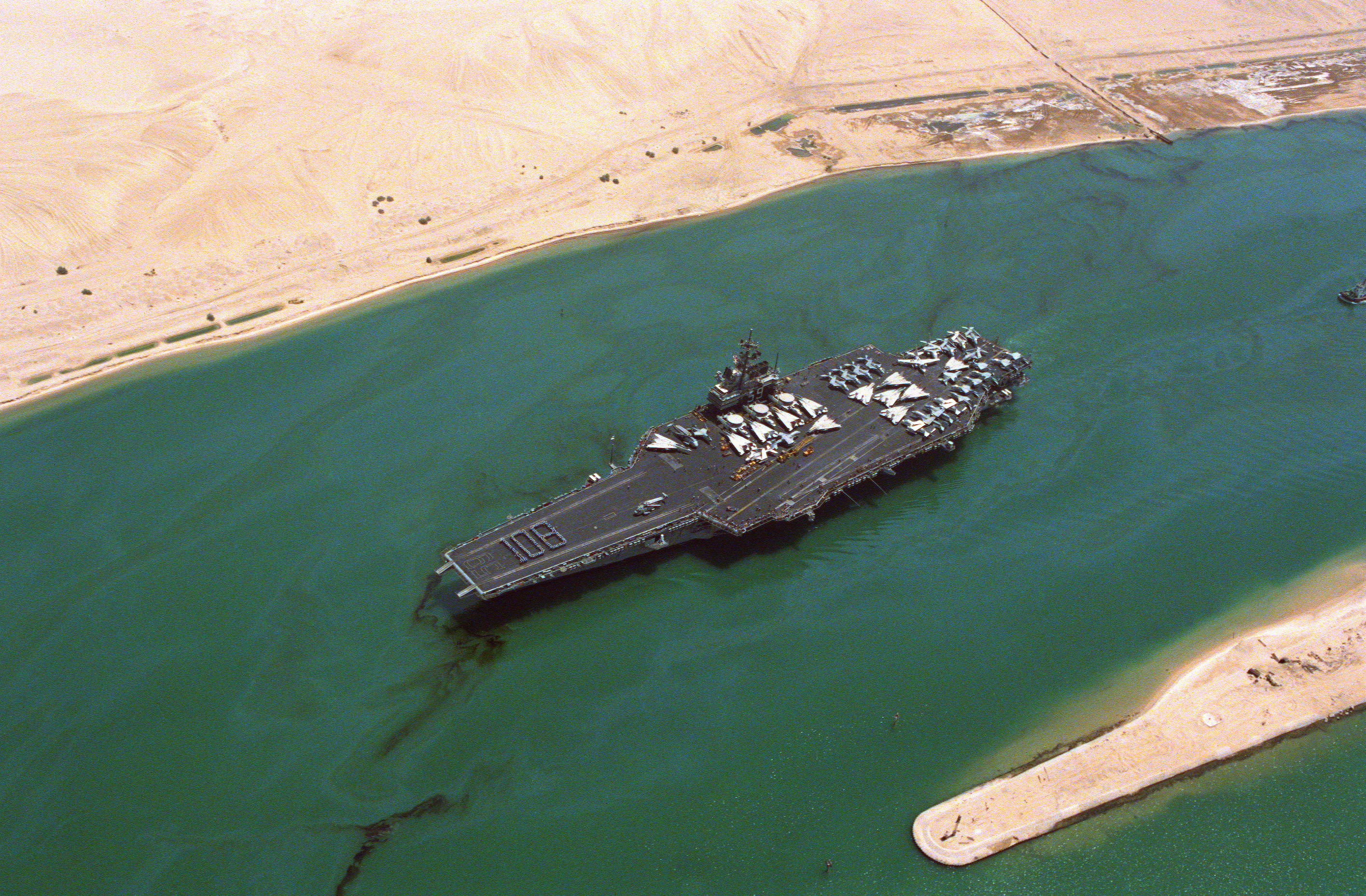 An aerial port bow view of the aircraft carrier USS FORRESTAL (CV 59) transiting the Suez canal. A formation of crewmen spells out"108"on the bow to signify that the ship has been at sea for 108 consecutive days.